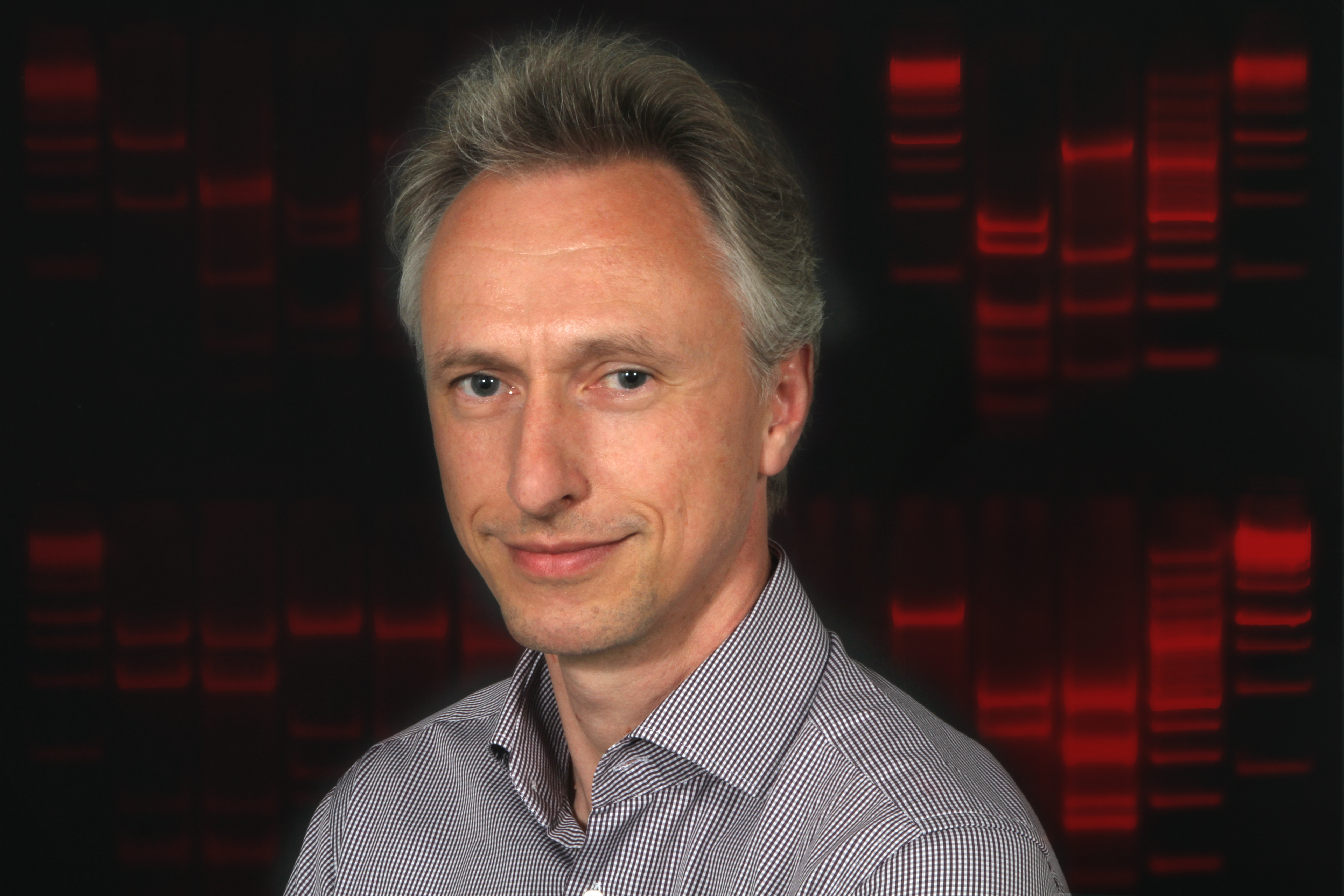 Professor Christoph Dehio